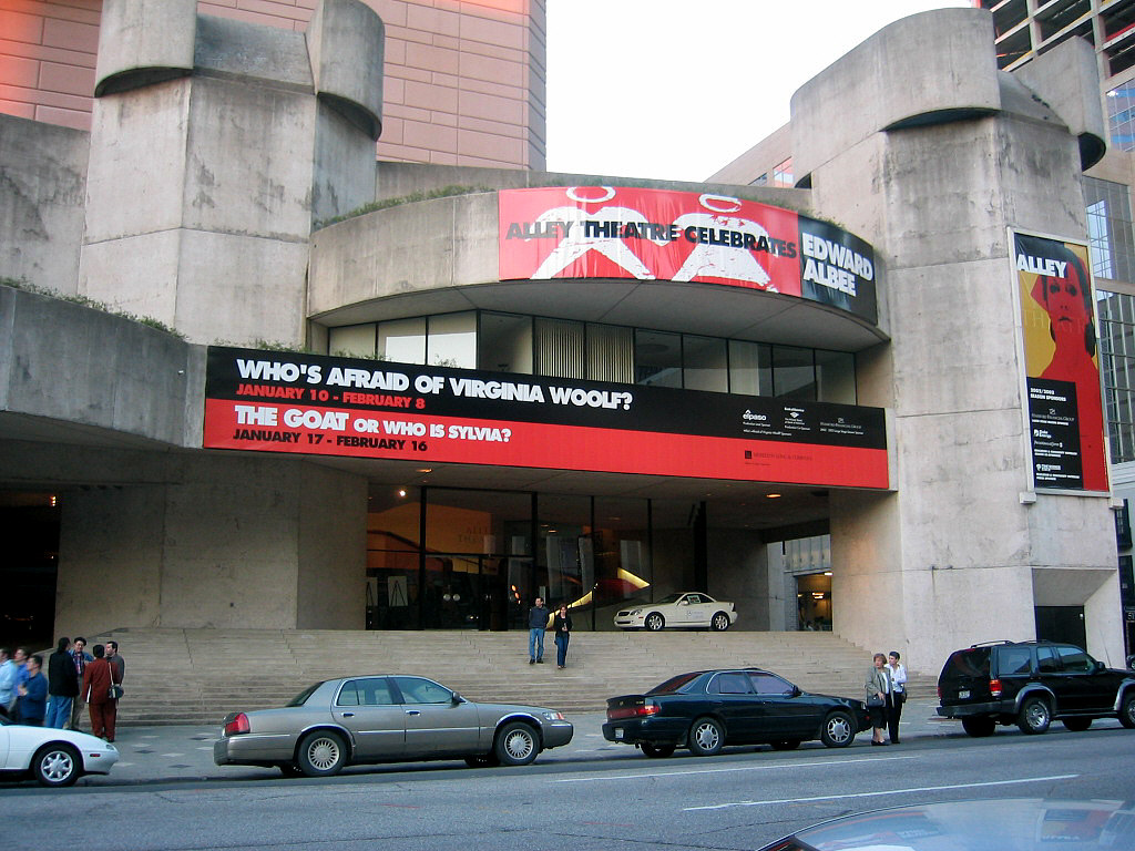 The Alley Theatre in Houston, Texas (advertising plays by Edward Albee)